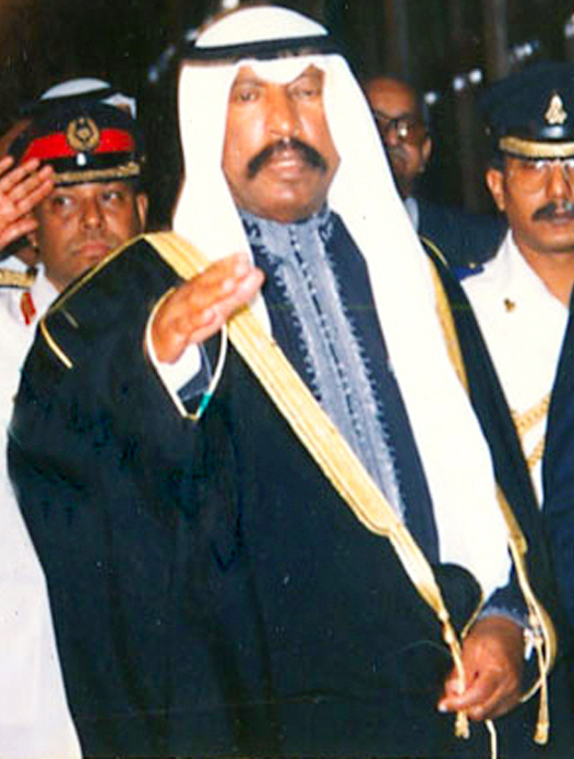 Mohammad Mosaddak Ali met with Crown Prince of Kuwait Saad Al-Abdullah Al-Salim Al-Sabah in Kuwait in 1991.